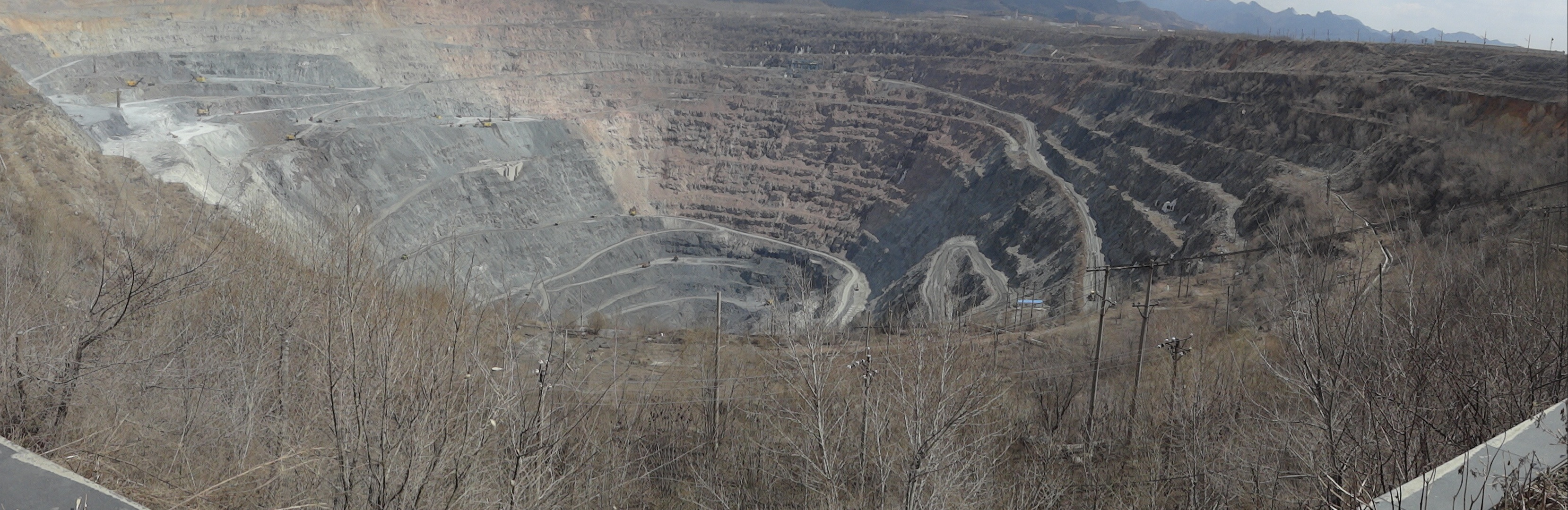 Qidashan iron mine of Anshan,Liaoning.中文（中国大陆）: 辽宁鞍山的齐大山铁矿